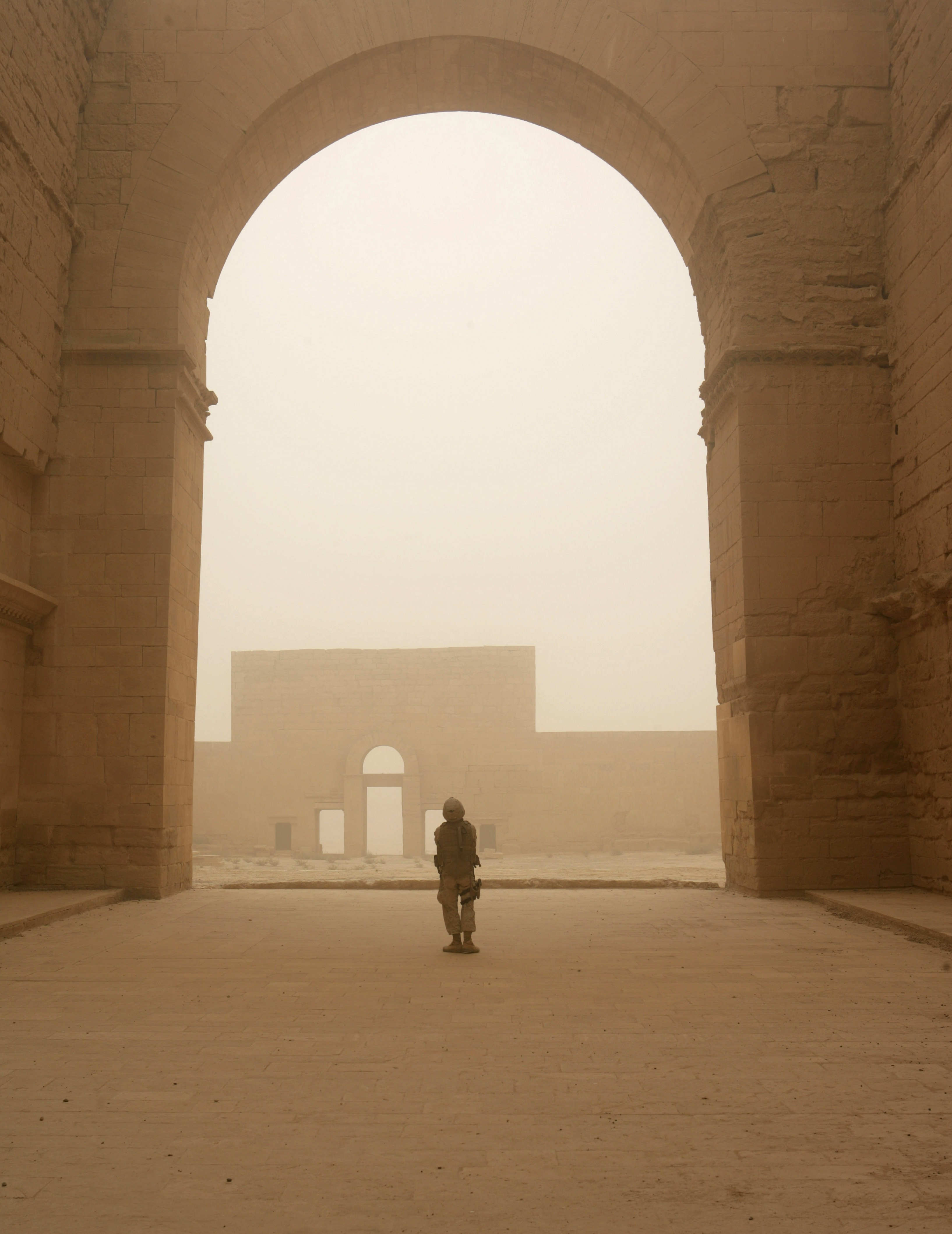 A U.S. Marine with a ground combat element assigned to Delta Company, 2nd Light Armored Reconnaissance Battalion, Task Force Mechanized, Multi-National Force - West walks through the Hatra Ruins in the Jazeerah Desert in Iraq on July 20, 2008. The task force is conducting disruption operations in the area to deny the enemy sanctuary and prevent foreign fighters from accessing the area. DoD photo by Lance Cpl. Albert F. Hunt, U.S. Marine Corps.